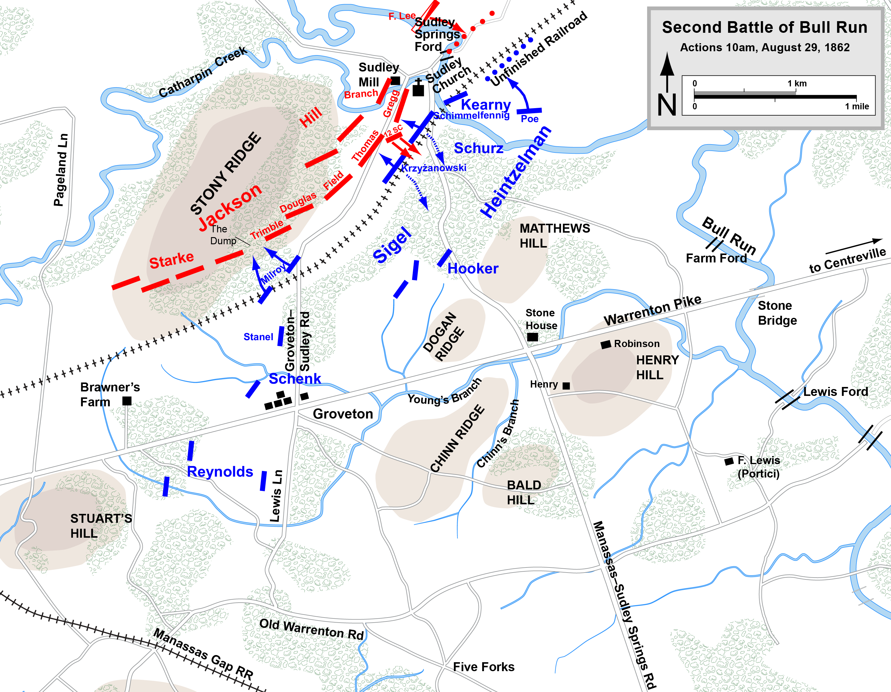 Map of the Second Battle of Bull Run of the American Civil War, drawn in Adobe Illustrator CS5 by Hal Jespersen. Graphic source file is available at